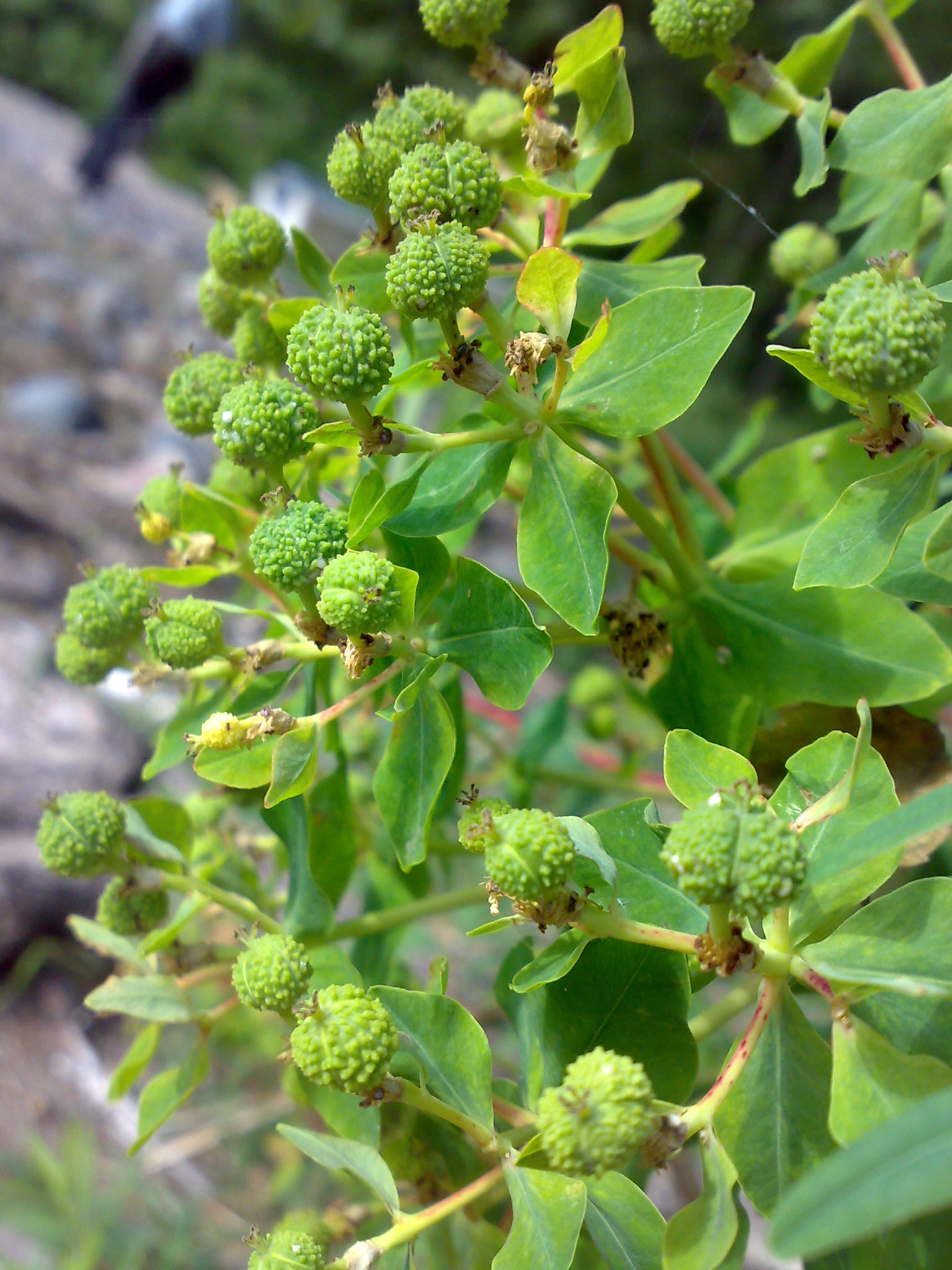 Euphorbia palustris fruits, late June, Norway